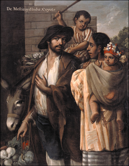 Casta Painting, No. 15. From Mestizo and from Indian; Coyote.